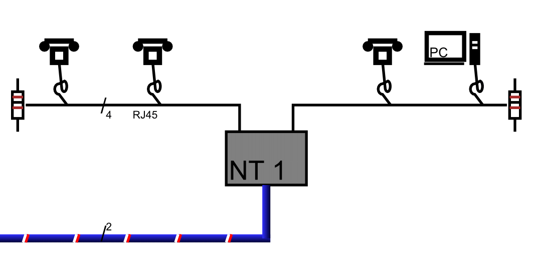 How to connect ISDN telephones